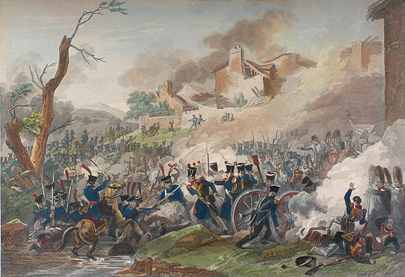 The Battle of Leipzig. Еngraving, hand-coloured, Pennington Catalogue p. 1350.